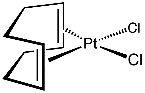 structure of PtCl2(cod)